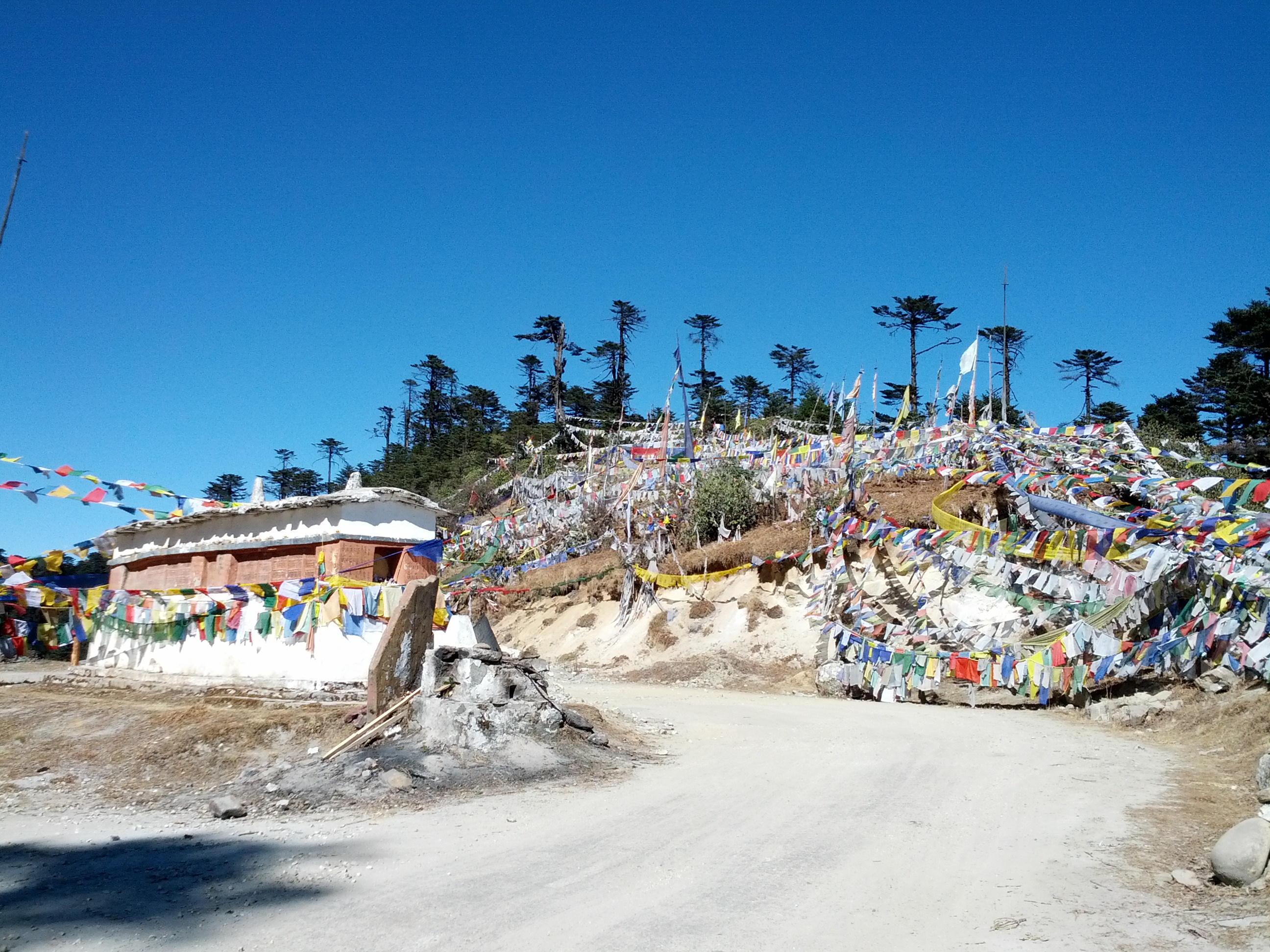 Photo of Thrumshing La mountain pass.